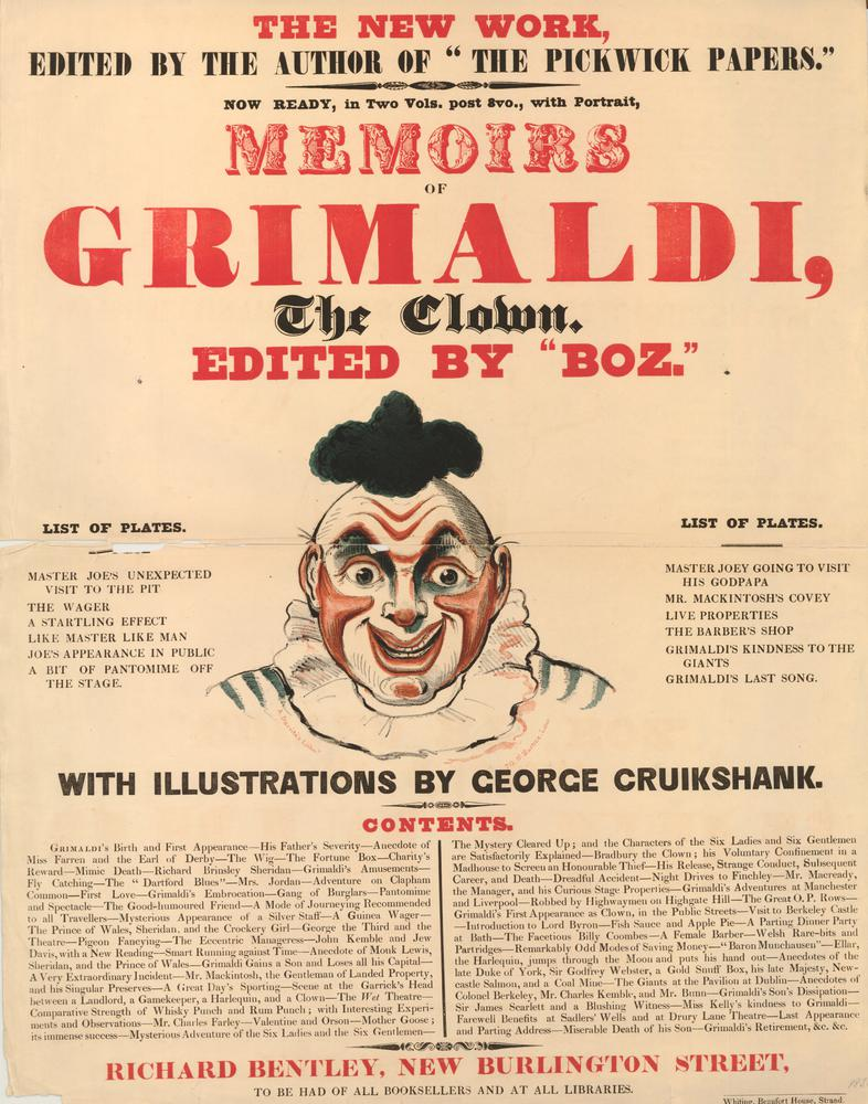 Poster advertising the 'Memoirs of Grimaldi, the Clown', edited by Charles Dickens and published by Richard Bentley; with portrait of Grimaldi as a clown, head only, full face, in centre of poster. 1838 Colour lithograph, the sheet split in two horizontally down centre